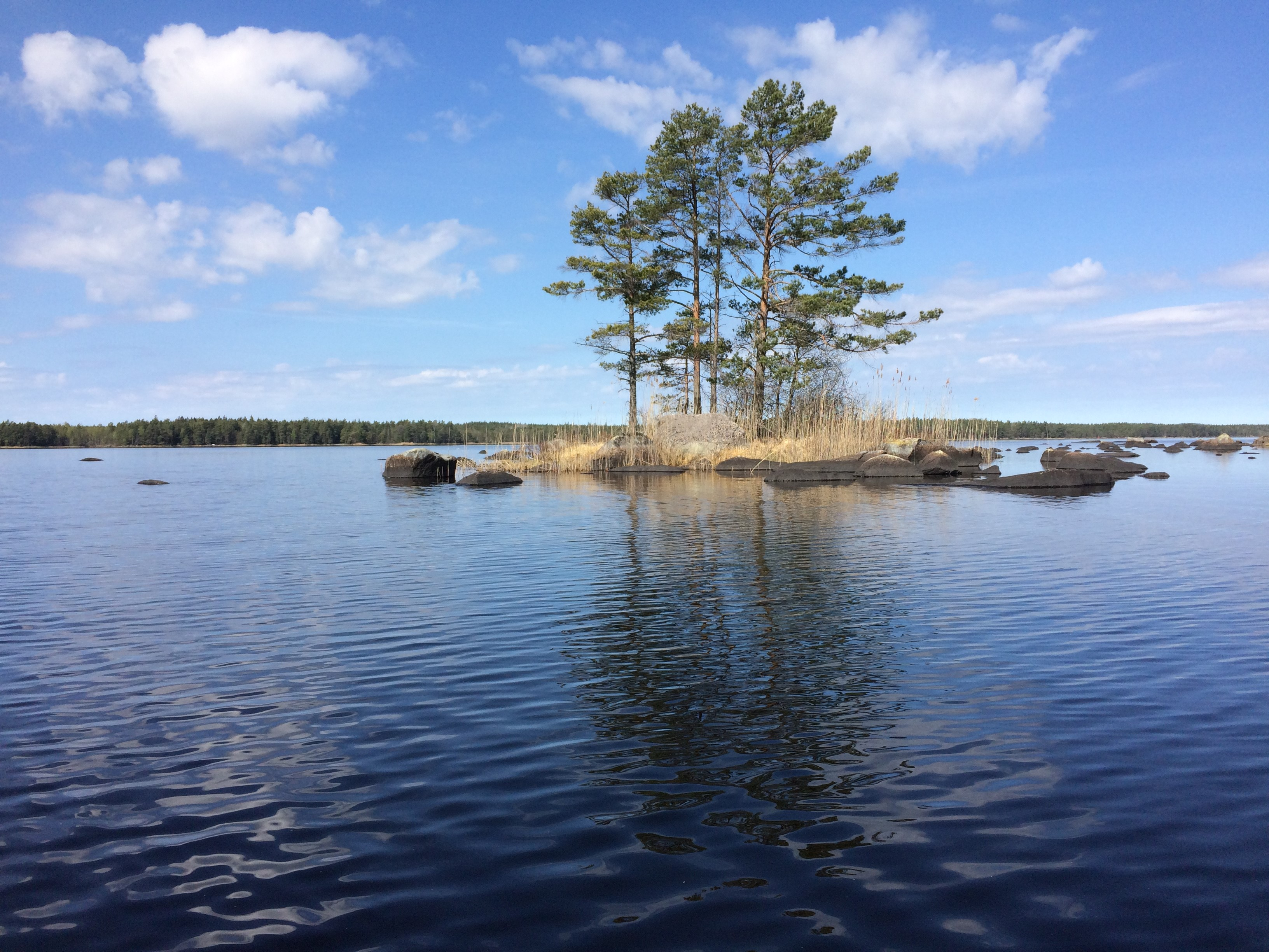 Swedish lake Allgunnen in springtime.